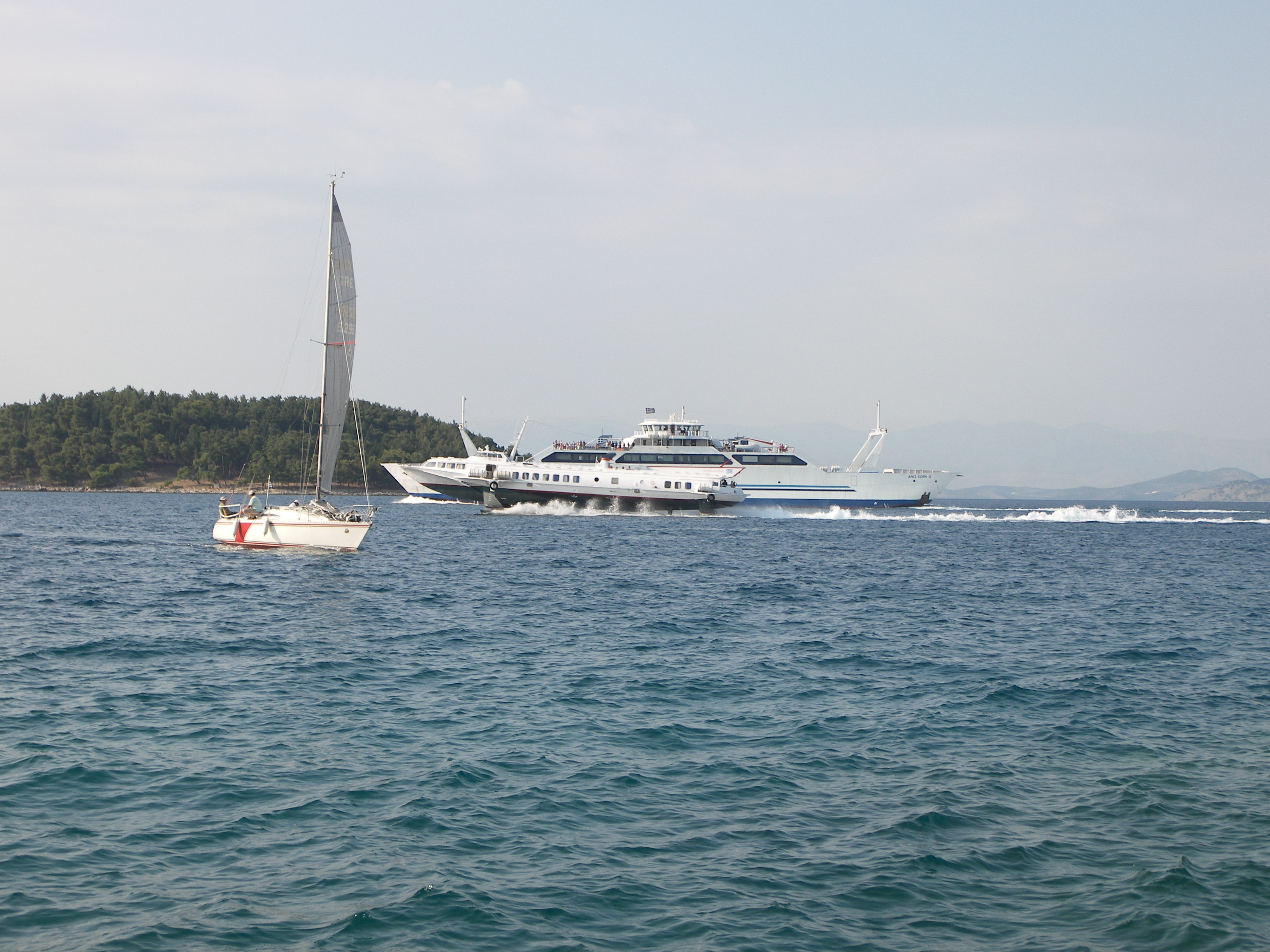 Flying Dolphin in Corfu